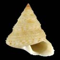 apertural view of the shell of Calliostoma anseeuwi